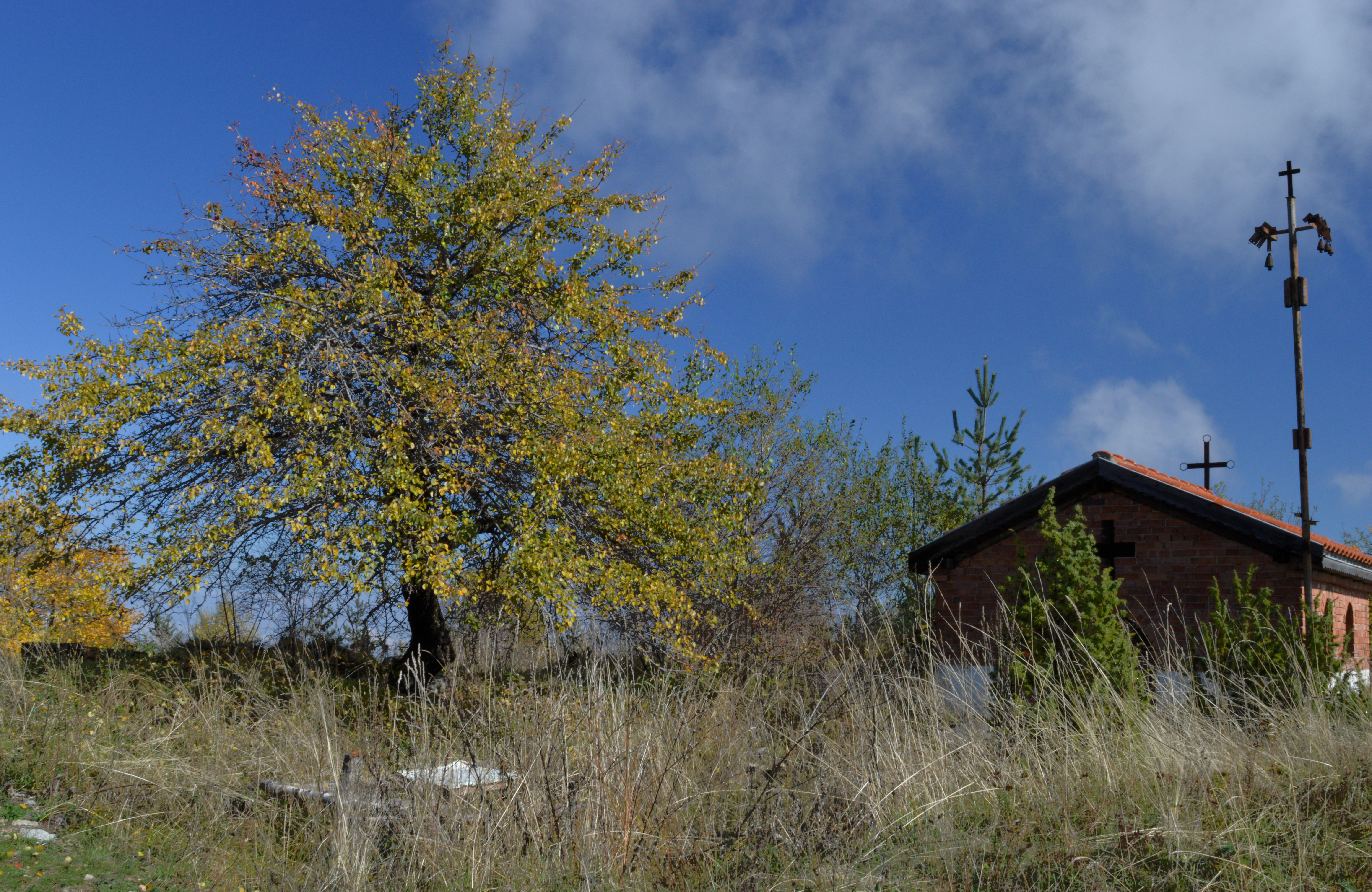 paraklis Sv Duch - Manastirishte - Plana planina